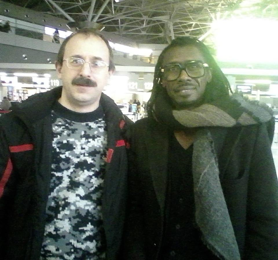 Aliou Cissé (right)